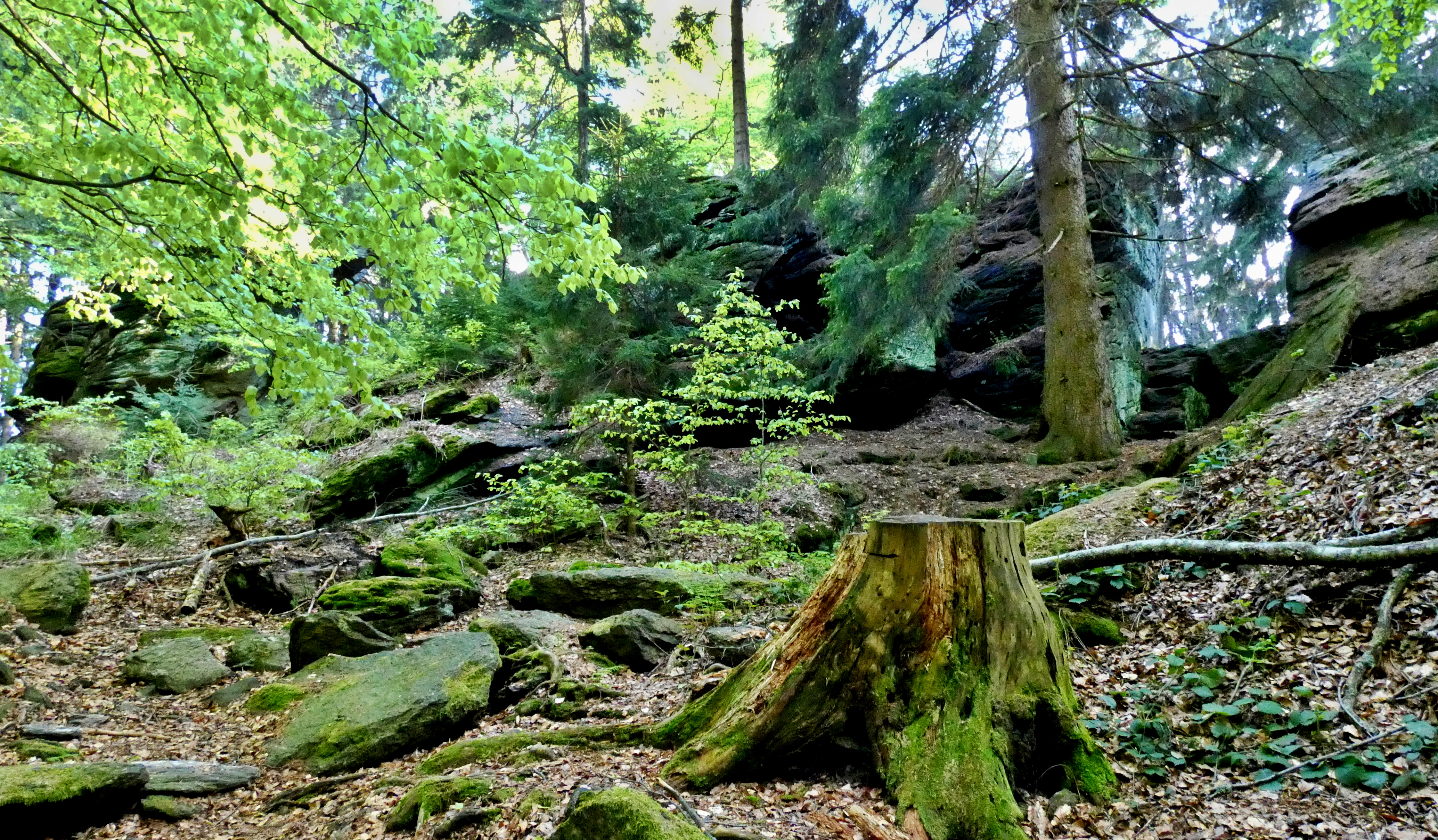 Rock group called Petrified Chateau, natural monument of Žďár Hills. Space between the rocks with the tourist route of the Czech Tourists Club. A view of the rock wall, a cleft visible in the photo on the right, between the Chateau tower and the rock called Head (left). The rock crevasse is called a window according to a folk rumor. View from the north, azimuth 180°. Photo-location: Natural monument Petrified chateau, about 750 m above sea level, Svratka, Region Vysocina, Czech Republic.